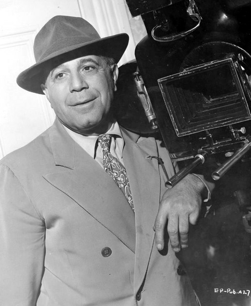 cinematographer Tony Gaudio on the set of Experiment Perilous - publicity still